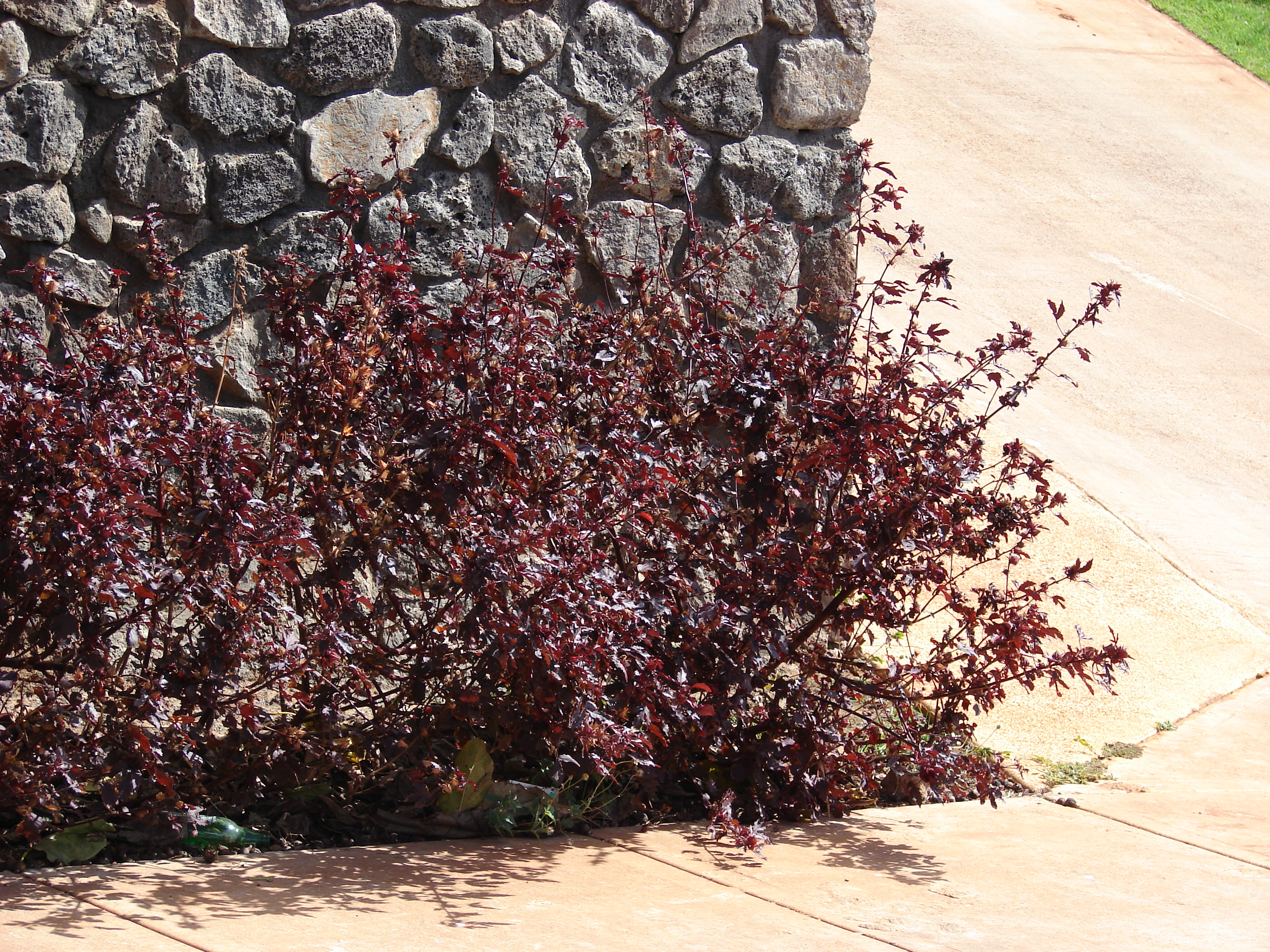 Hibiscus acetosella (habit). Location: Maui, Kahana